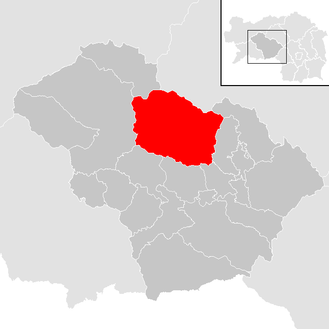 district Murtal in Styria, Austria